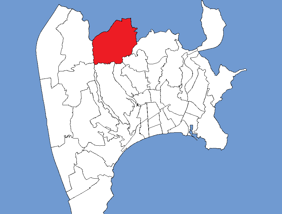 Location of the neighbourhood Saint Pancrace in Nice